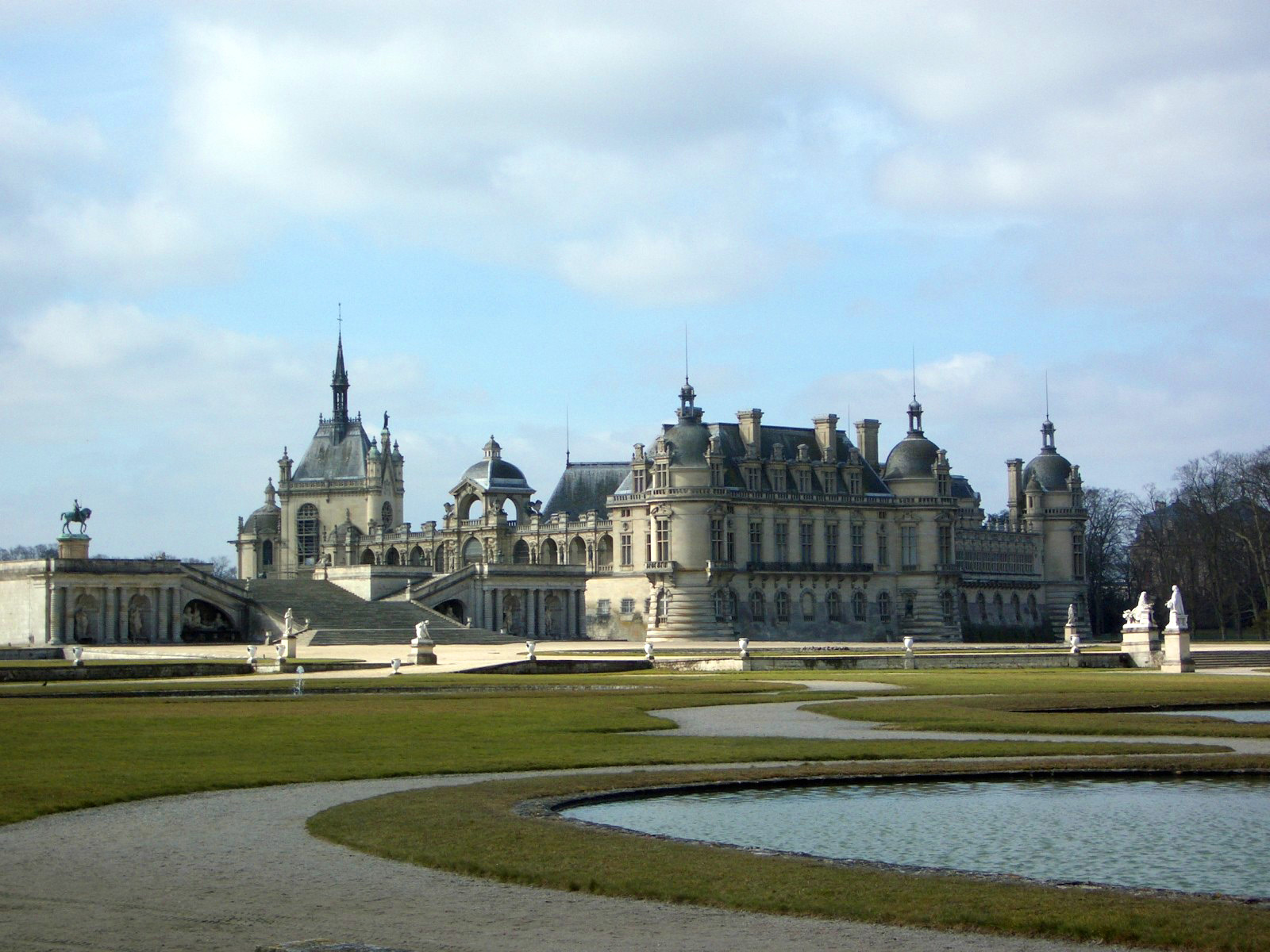 A picture of Chateau de Chantilly, taken in March 2005 by Craig Patik. For high resolution version (2304x1728) feel free to contact user Patik.